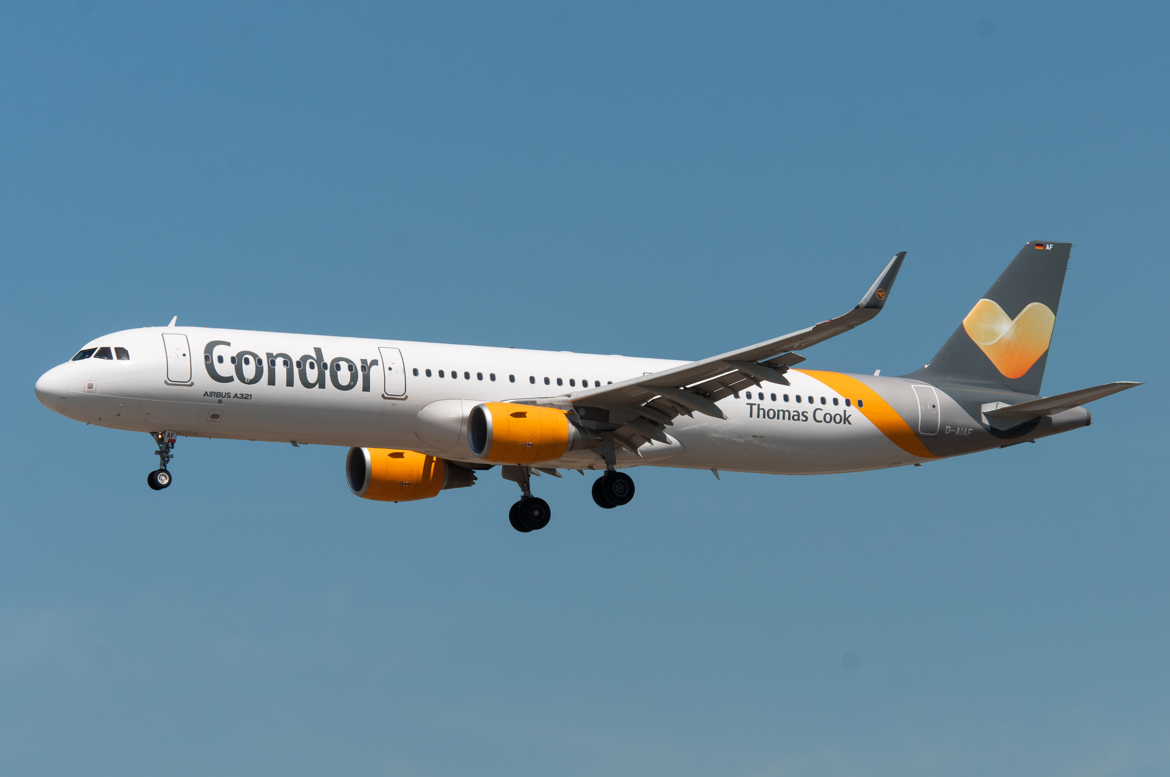 Frankfurt, July 2015